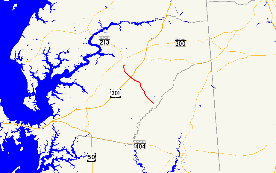 Map of Maryland Route 405